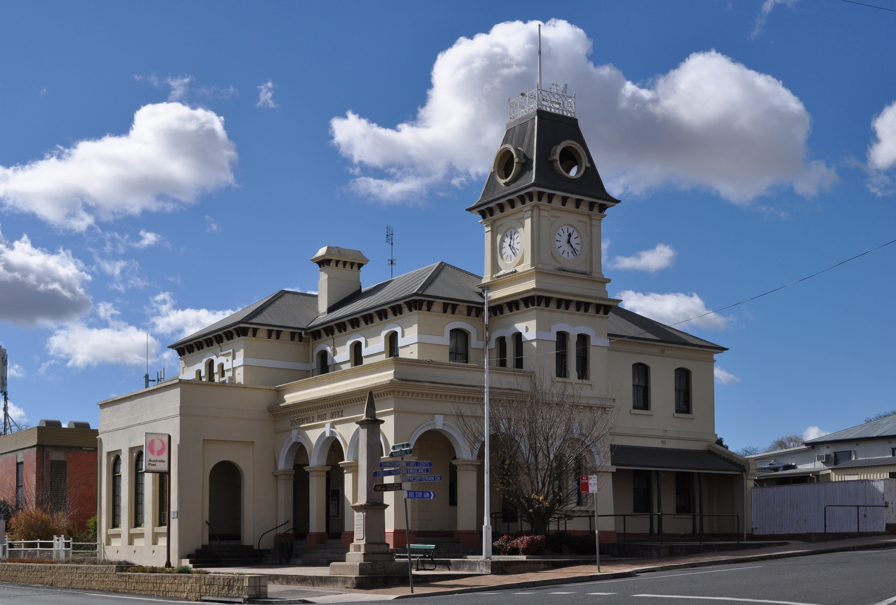 Tenterfield Post Office, which is listed on the Register of the National Estate.